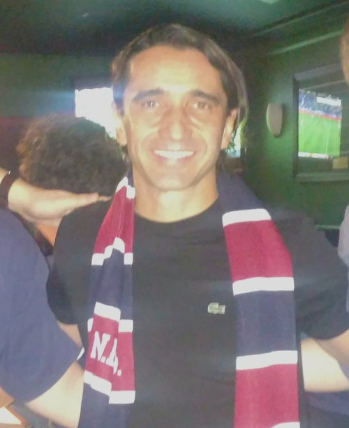 Beto Naveda with the Midnight Riders (New England Revolution supporters) in Boston, Massachusetts in 2018.